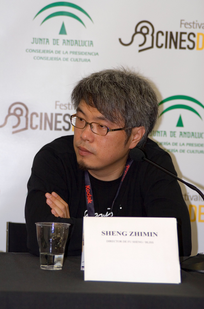 The chinese filmmaker during the presentation of his film "Bliss", Official Section